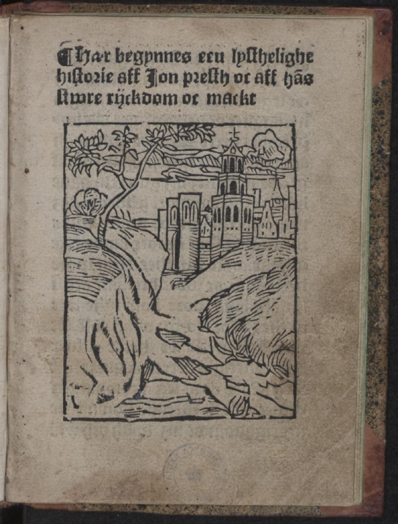 Historie om Jon Præst was the Danish version of the letter presumably sent from Prester John of Ethiopia to the Byzantine emperor. It was fake, but nevertheless created massive interest.